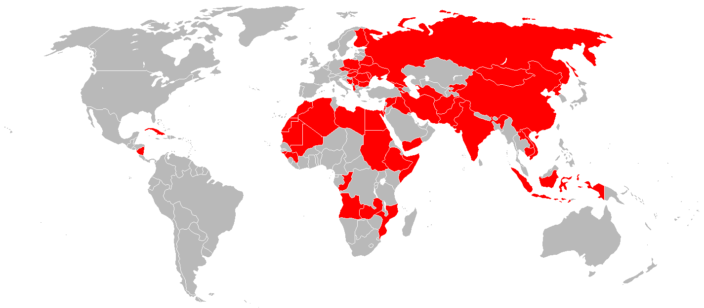 Operators of the 57 mm AZP S-60. Own work, derivative of image:BlankMap-World.png.